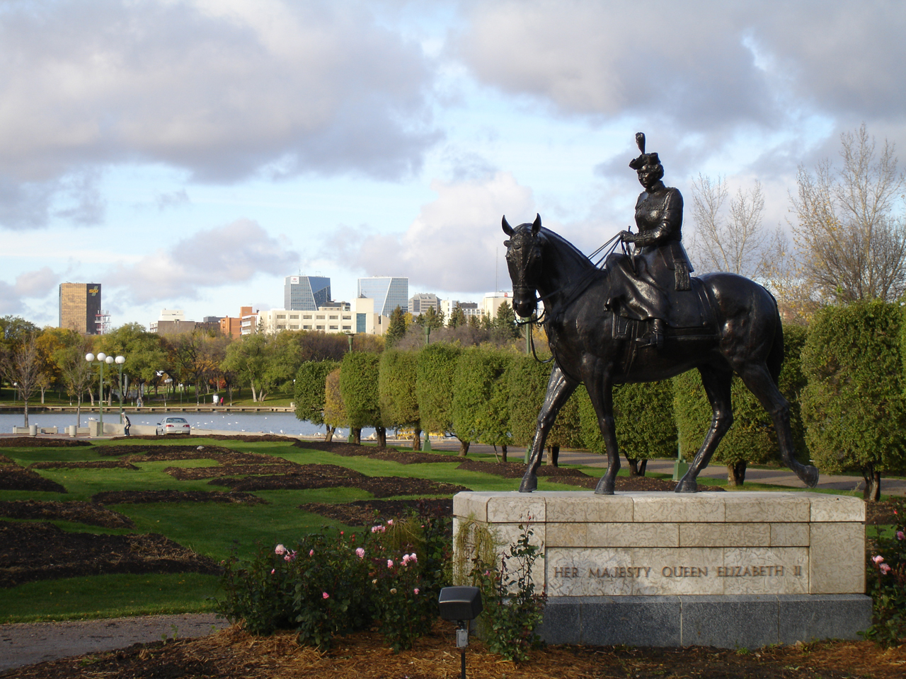 The statue of Queen Elizabeth II against the backdrop of Regina's skyline and Wascana Lake. "Regina" is Latin for "queen", which is why Regina is often called the "Queen City".